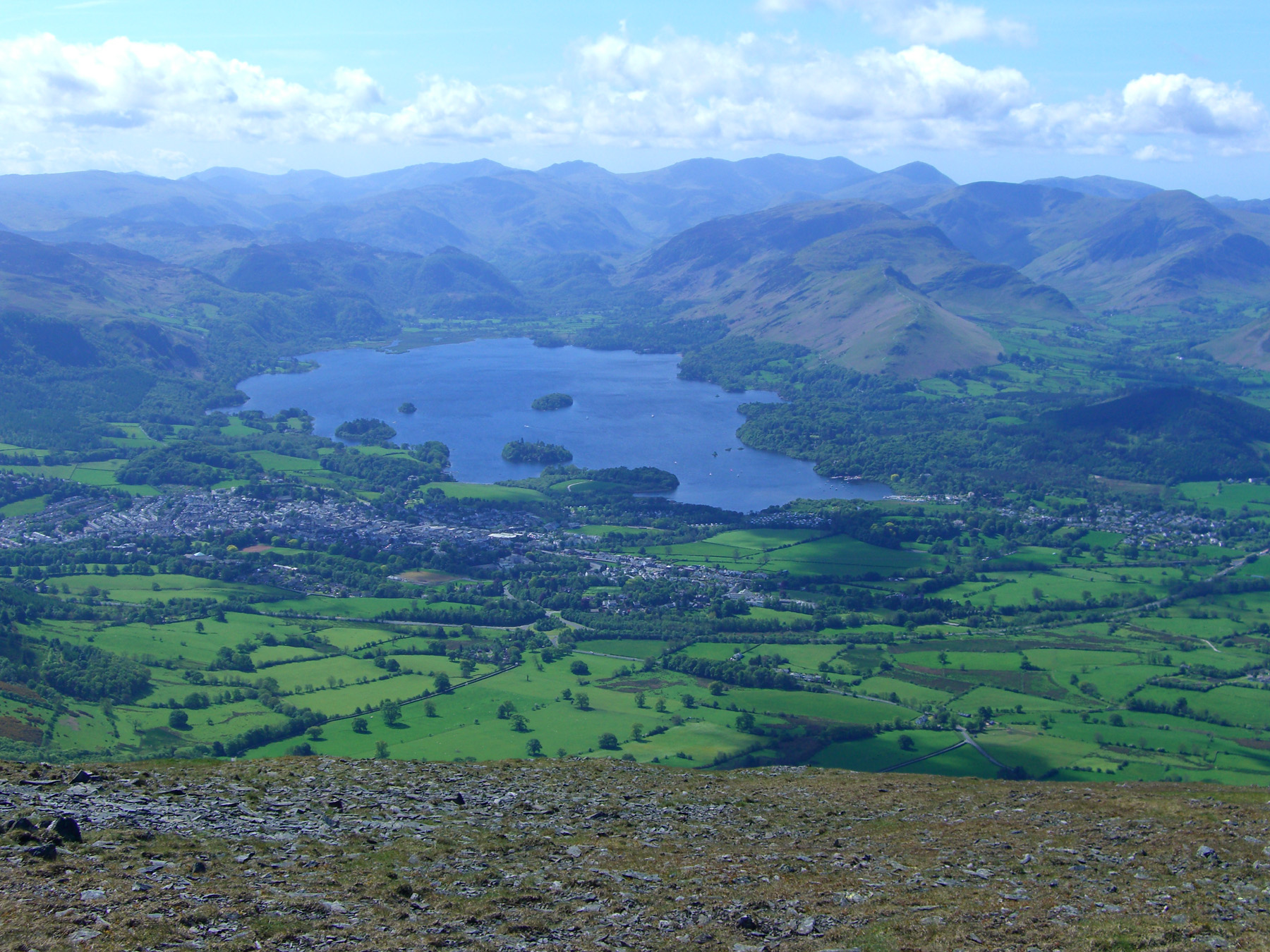 Personal photograph taken by Mick Knapton